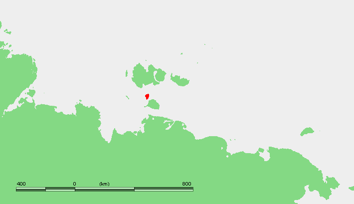 Location of Little Lyakhovsky Island, New Siberian Islands, Russia